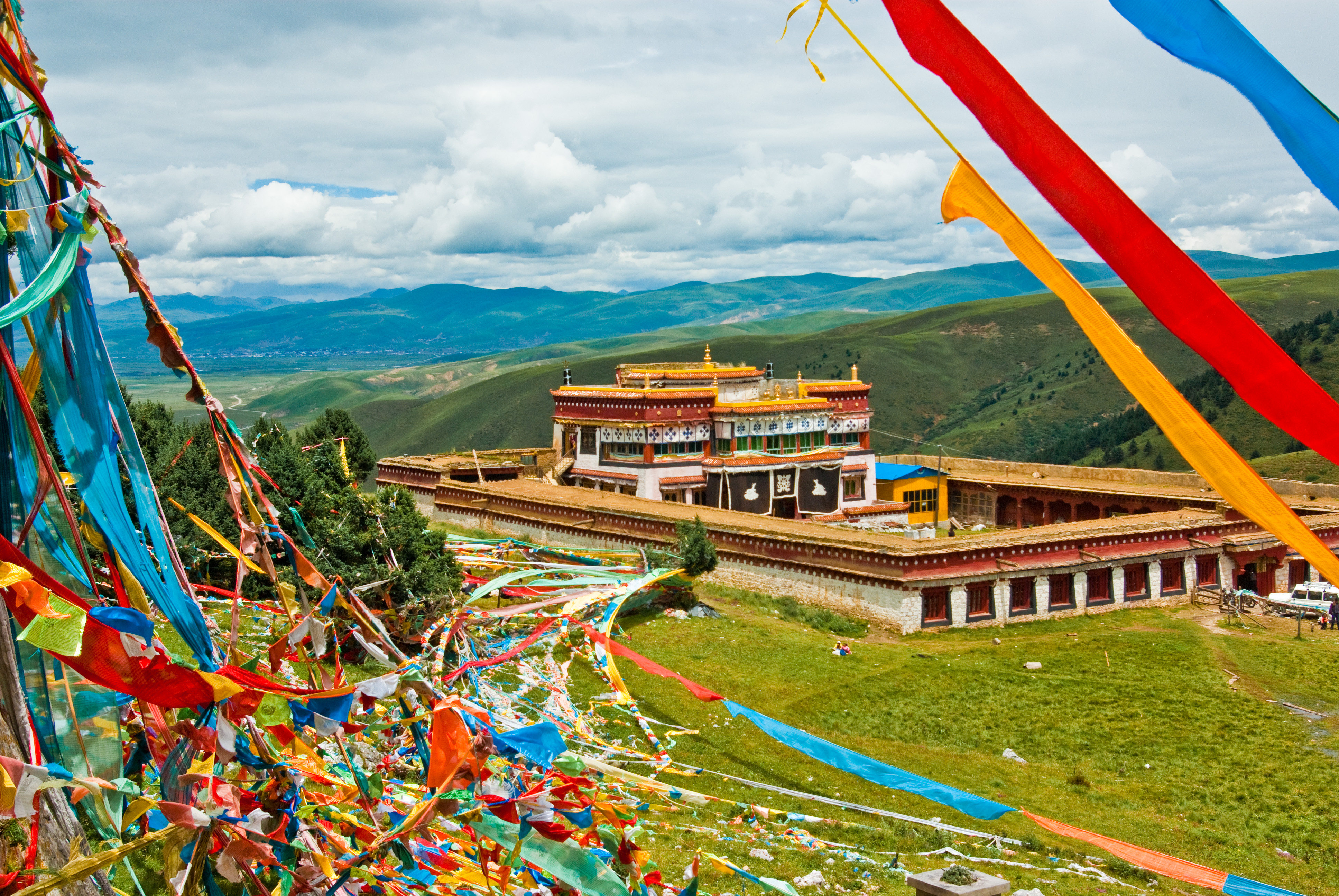 zhargye nyenri monastery (near Litang(18km))